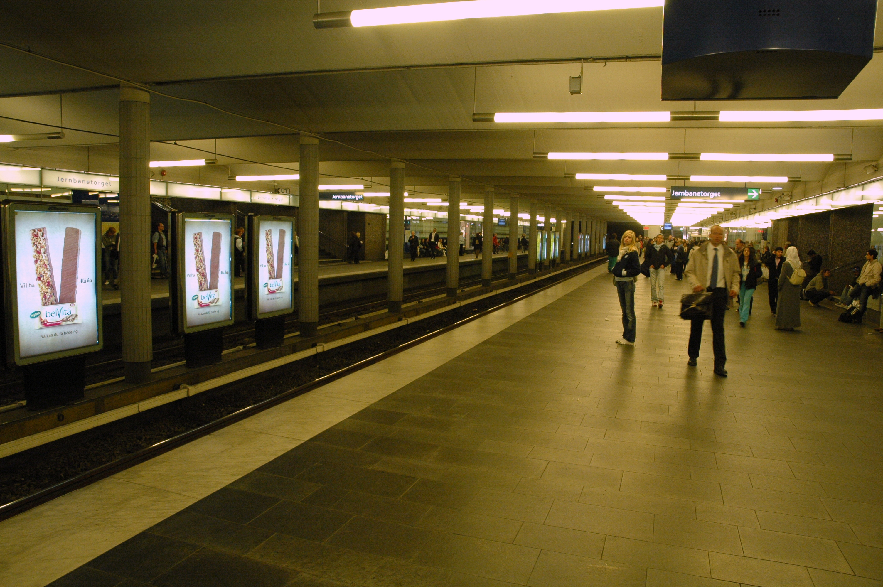 The eastbound platform of Jernbanetorget Metro station, Oslo, Norway.